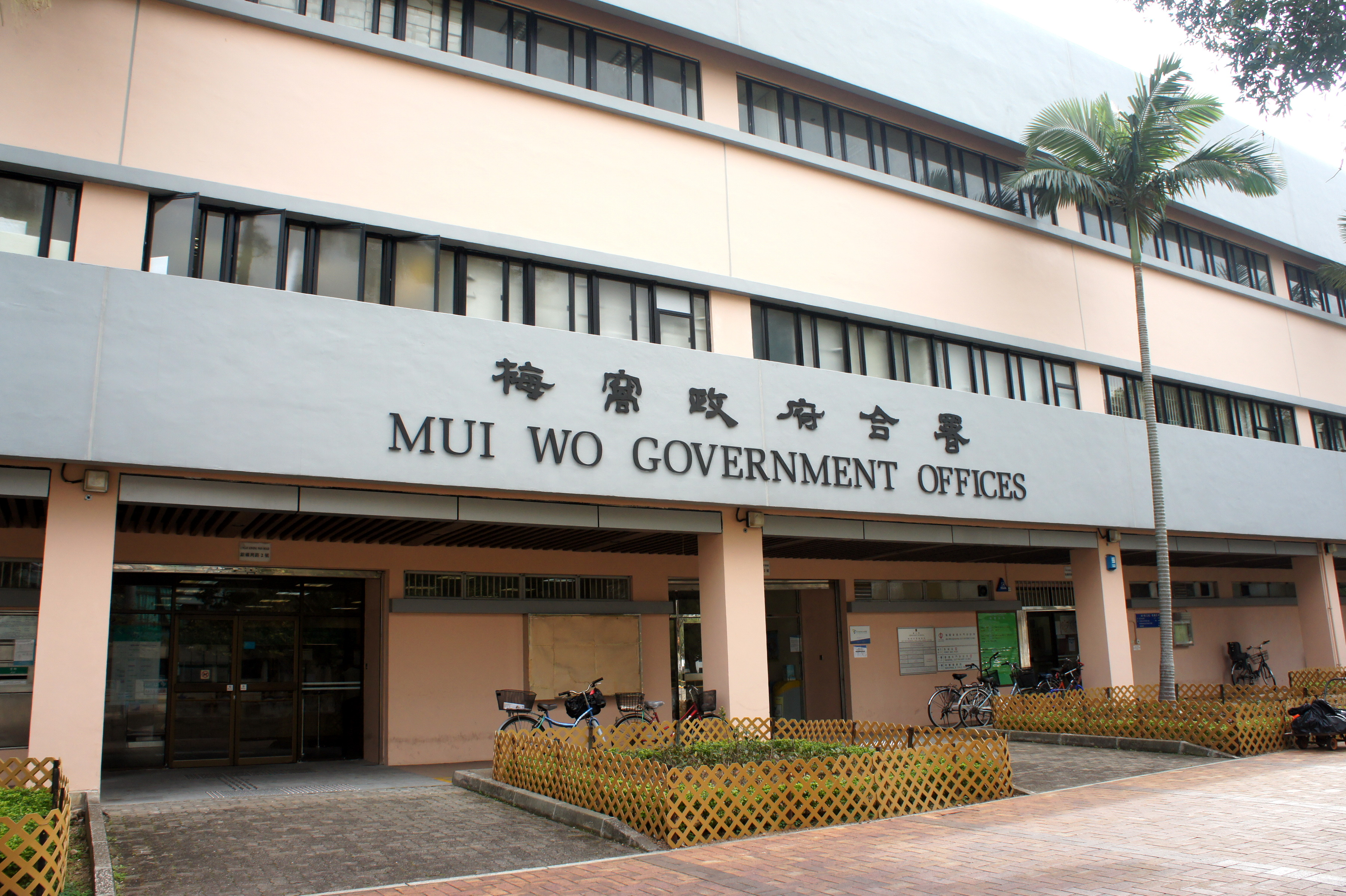 Mui Wo Government Offices, Lantau Island, Hong Kong.